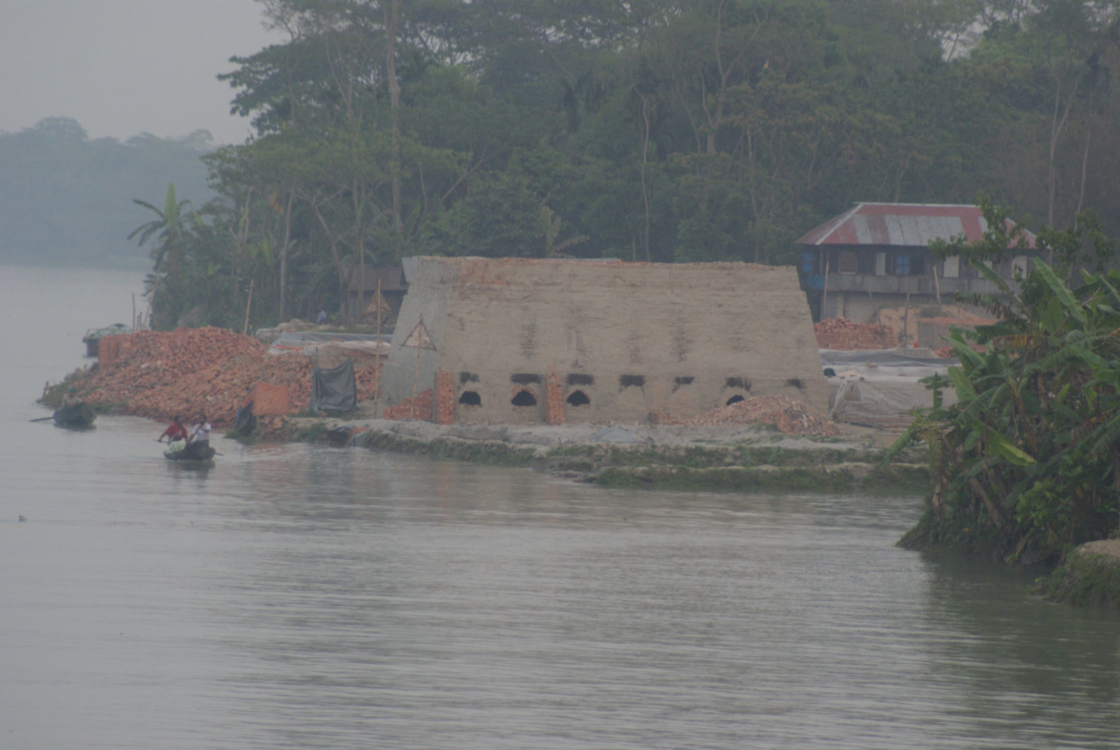 Brick burning in Barisal Bangladesh